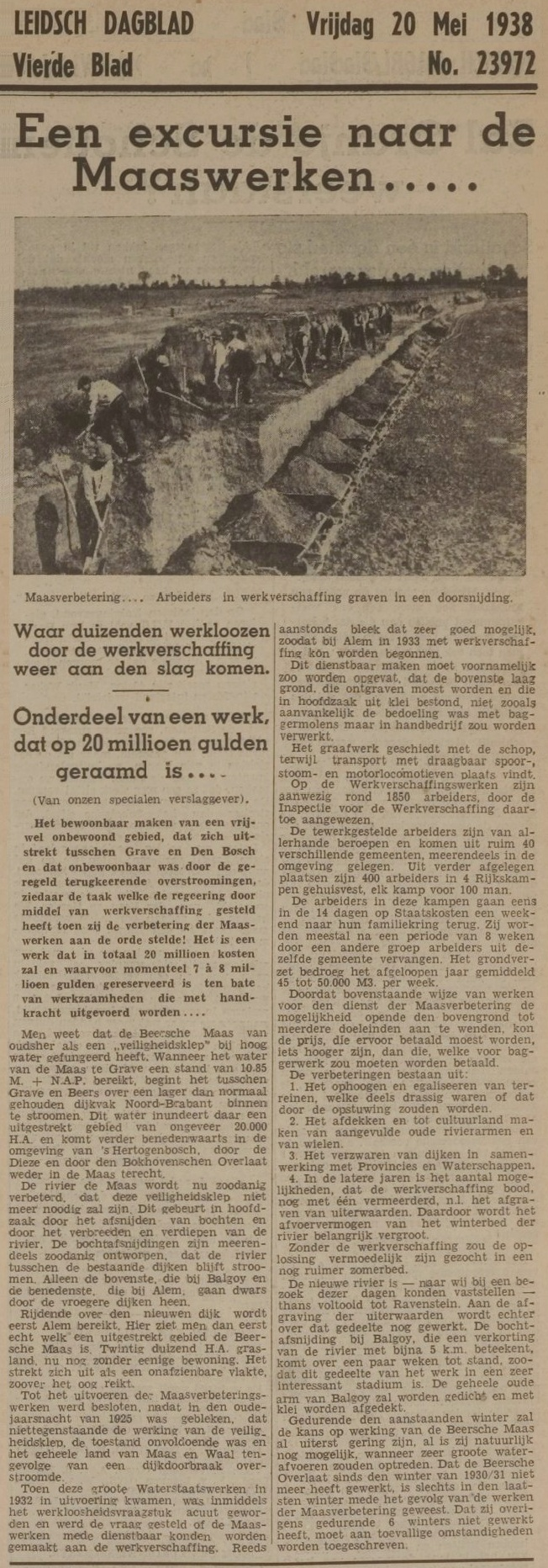 Dutch newspaper article from "Leidsch Dagblad" from 20 May 1938 on improvements on the River Meuse, for which the unemployed were forcibly recruited.